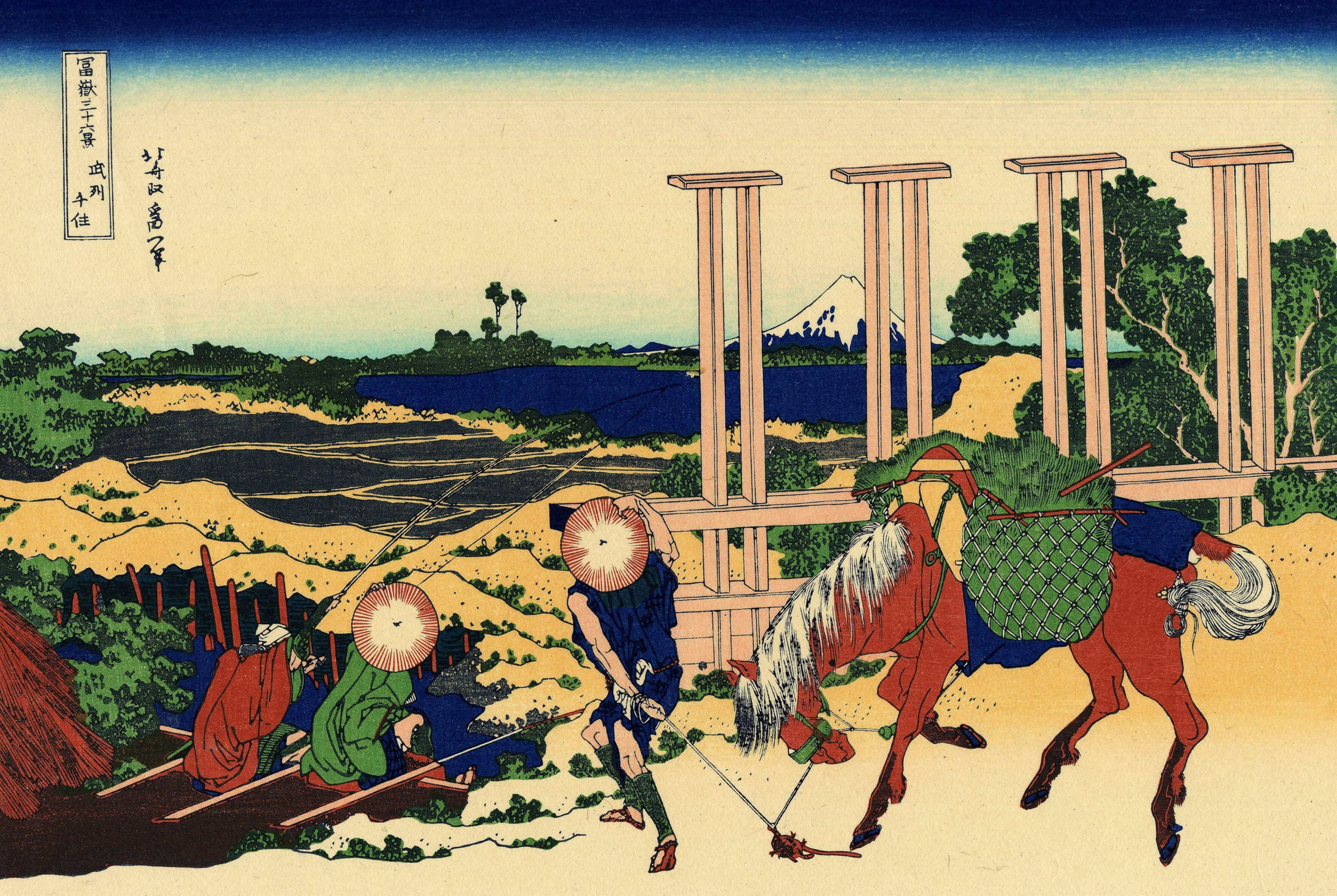 Part of the series Thirty-six Views of Mount Fuji, no. 14.